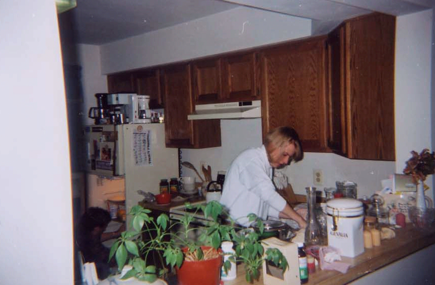 A woman in a kitchen.